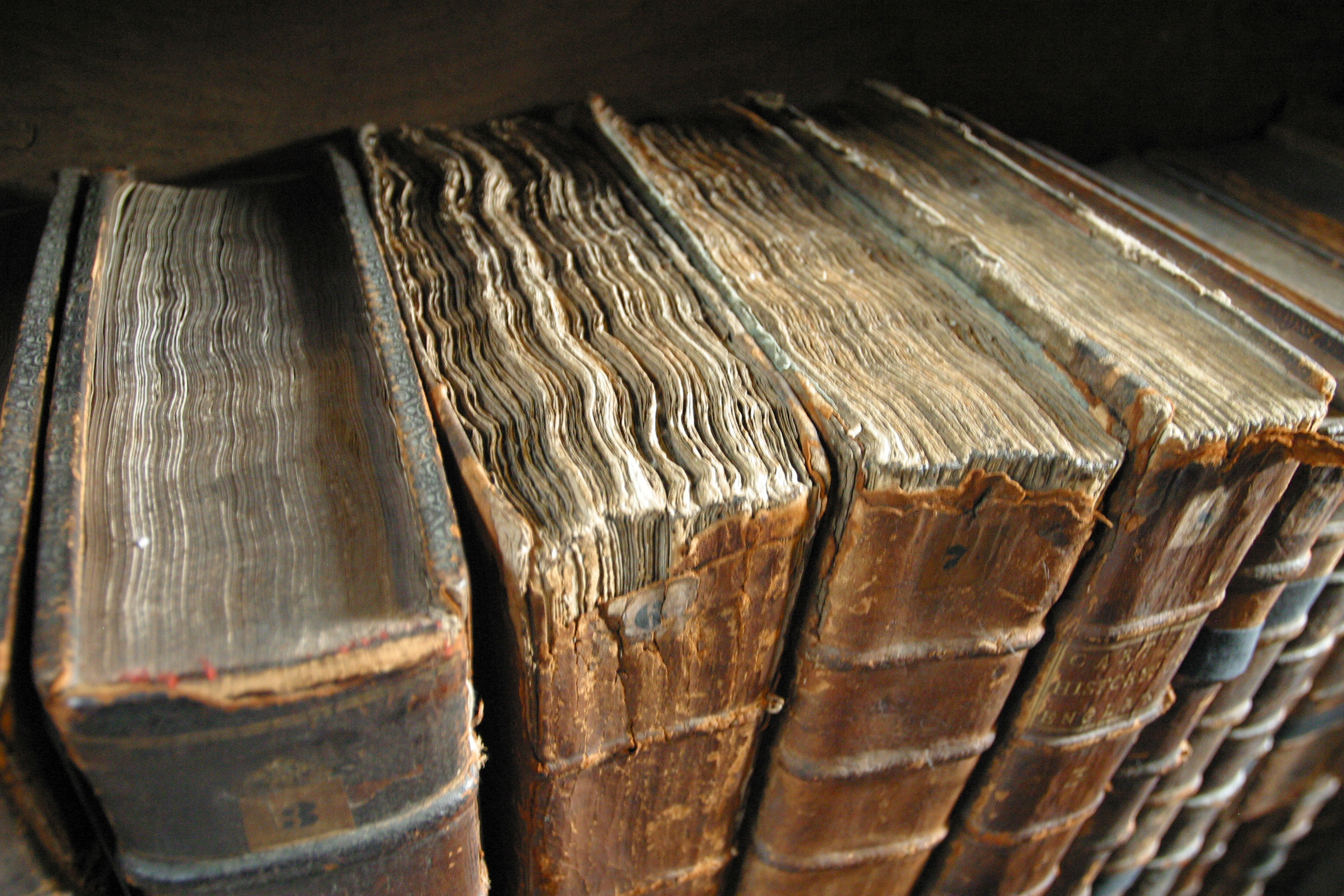 Old book bindings at the Merton College library.